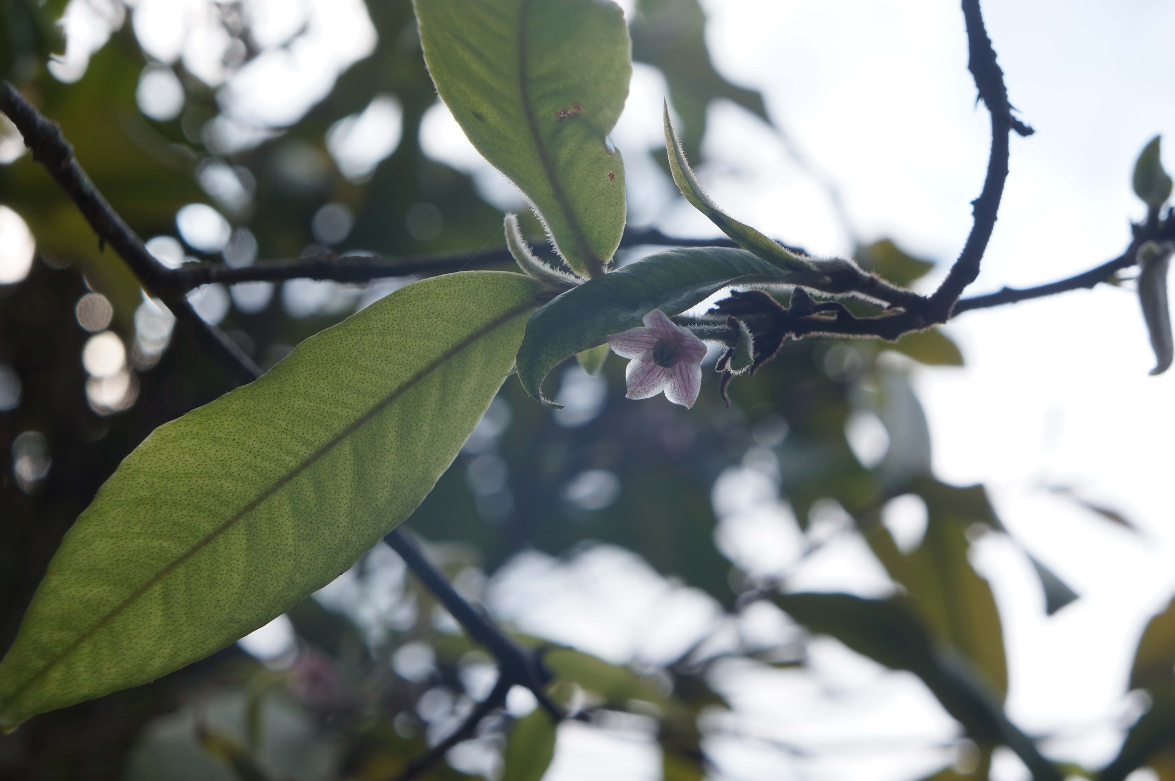 Flower Ardisia solaniiflora at the Nong Nooch Botanical Garden. Pattaya